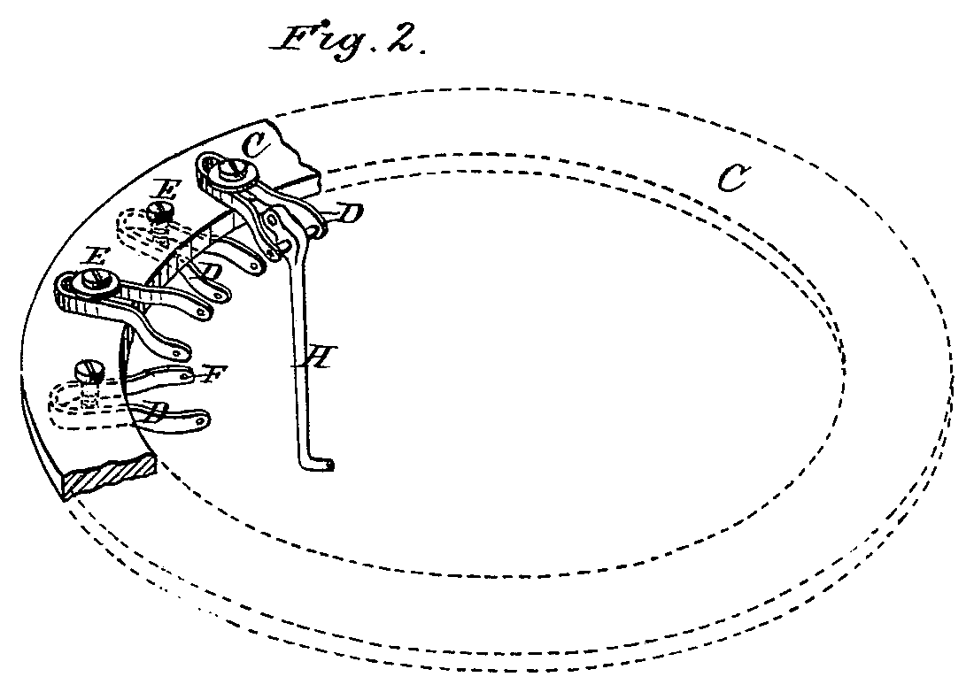 United States patent image of a typewriter component: a circular disk to which typebars are attached